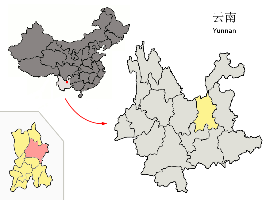 Location of Xundian County (pink) and Kunming prefecture (yellow) within Yunnan province of China Map drawn in september 2007 using various sources, mainly : Yunnan province administrative regions GIS data: 1:1M, County level, 1990 Yunnan Counties map from